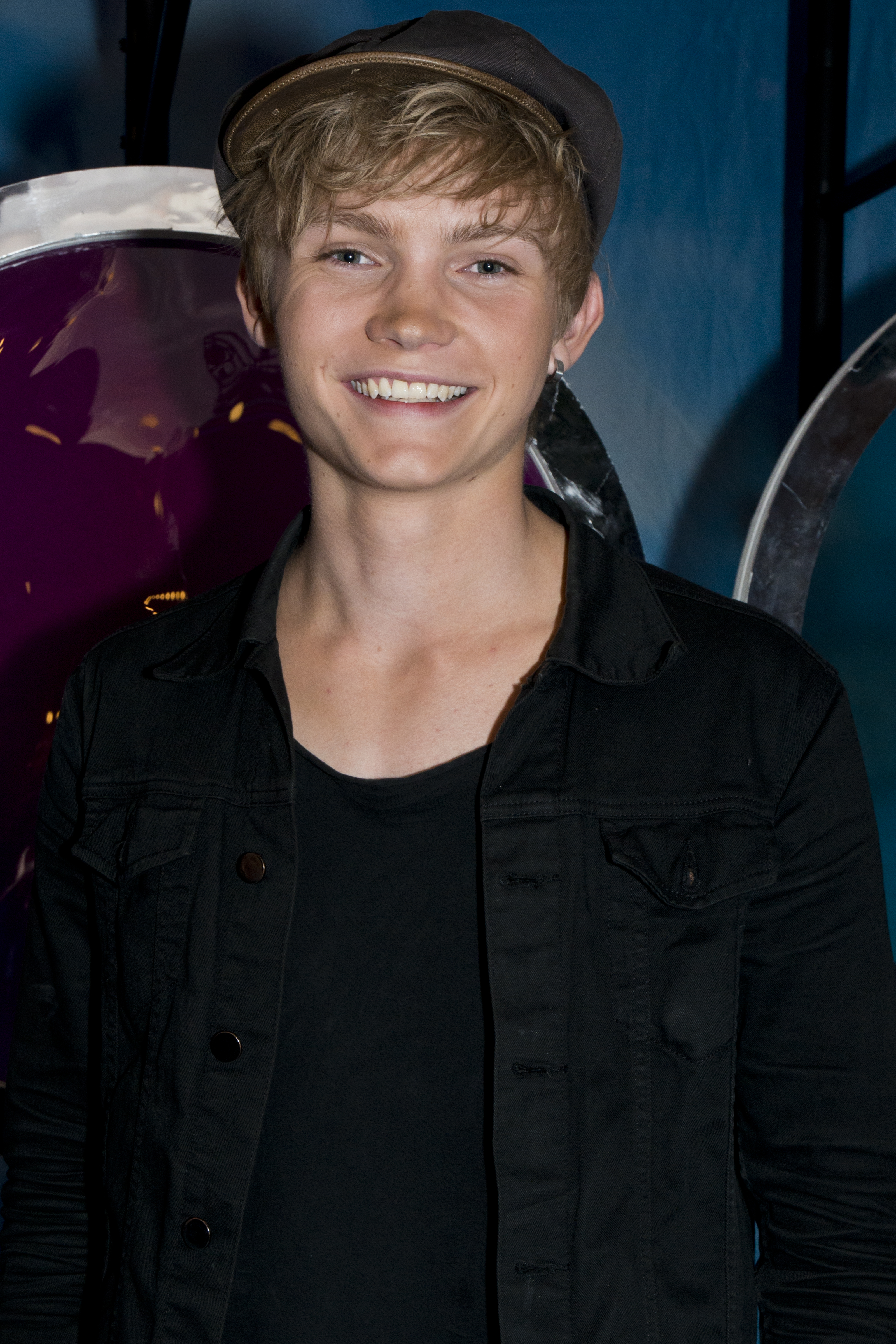 Ulrik Munther guest at Sommarkrysset 2013 on Gröna Lund in Stockholm (Sweden)